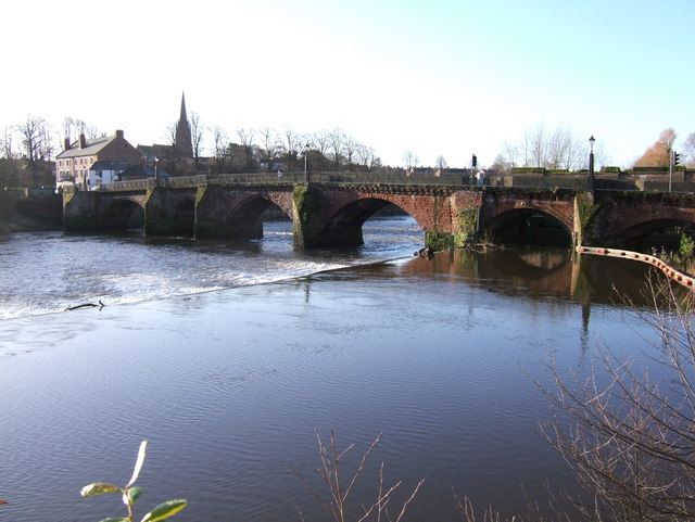 The Old Dee Bridge